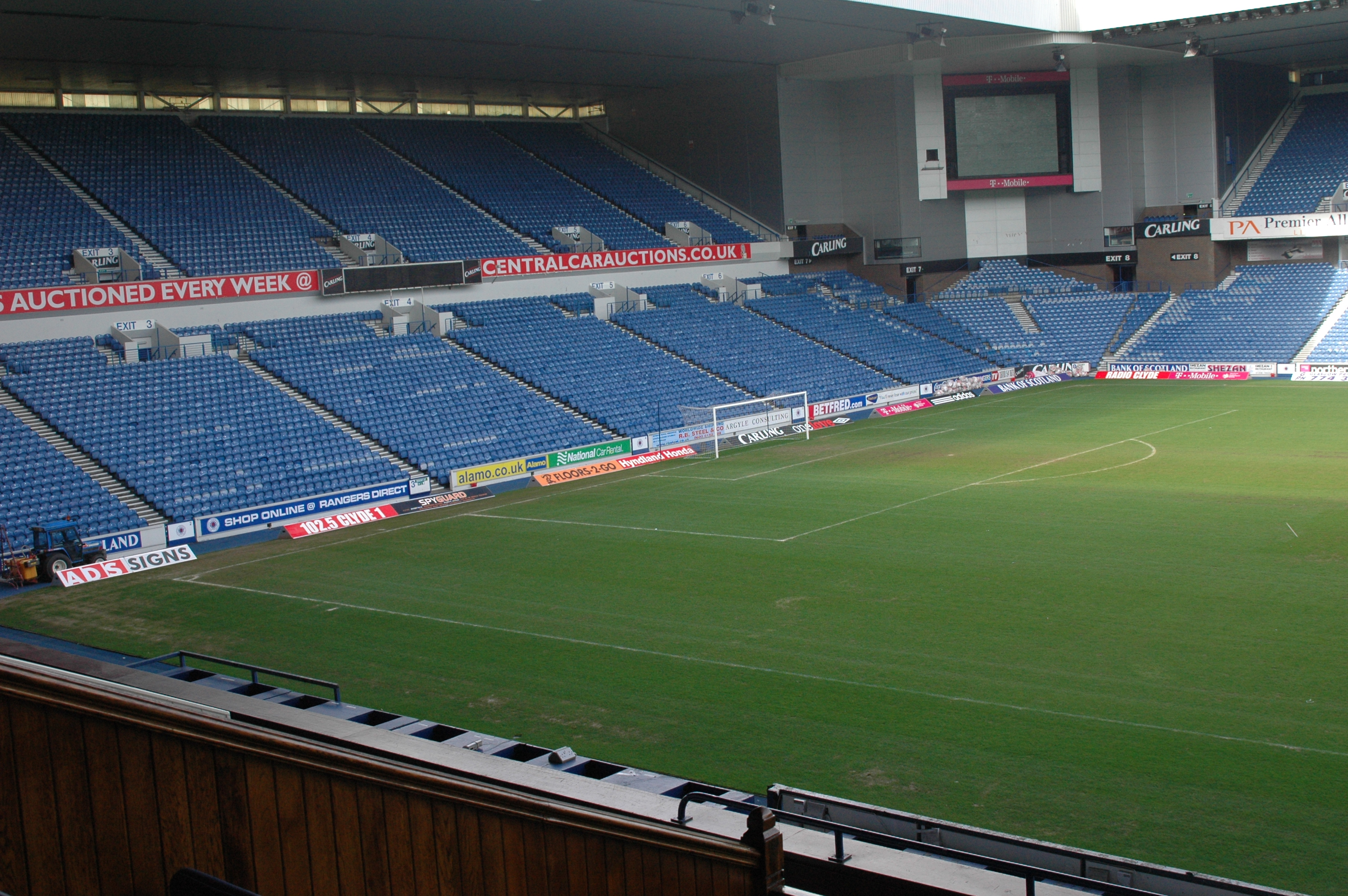 Away dugout at Ibrox Stadium.